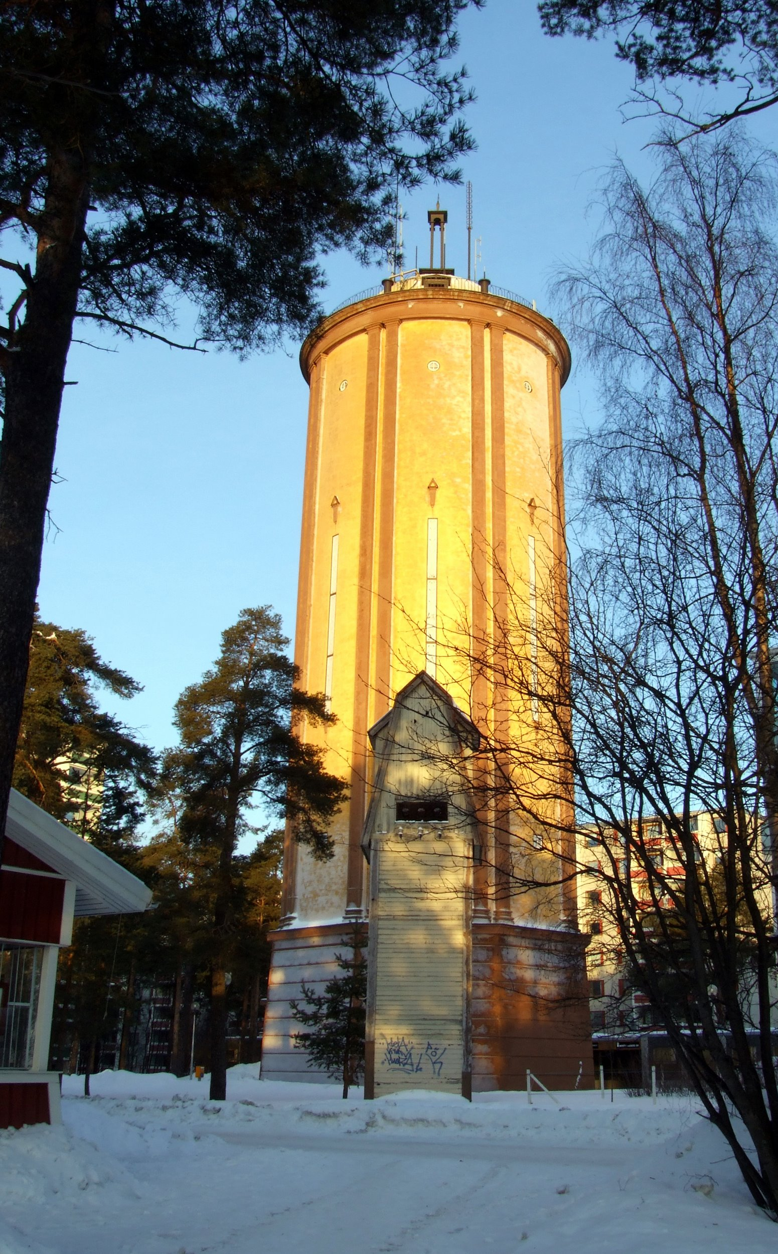 Intiö water tower, Oulu.